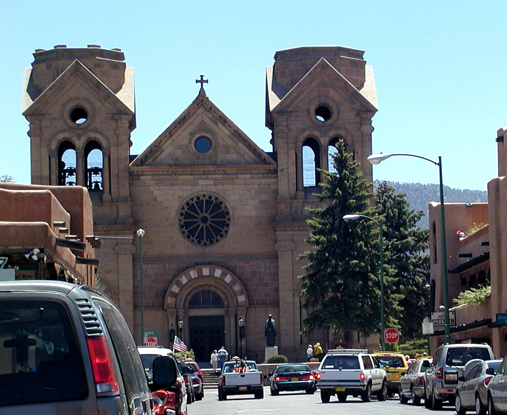 St. Francis Cathedral in Santa Fe, New Mexico, U.S.A.